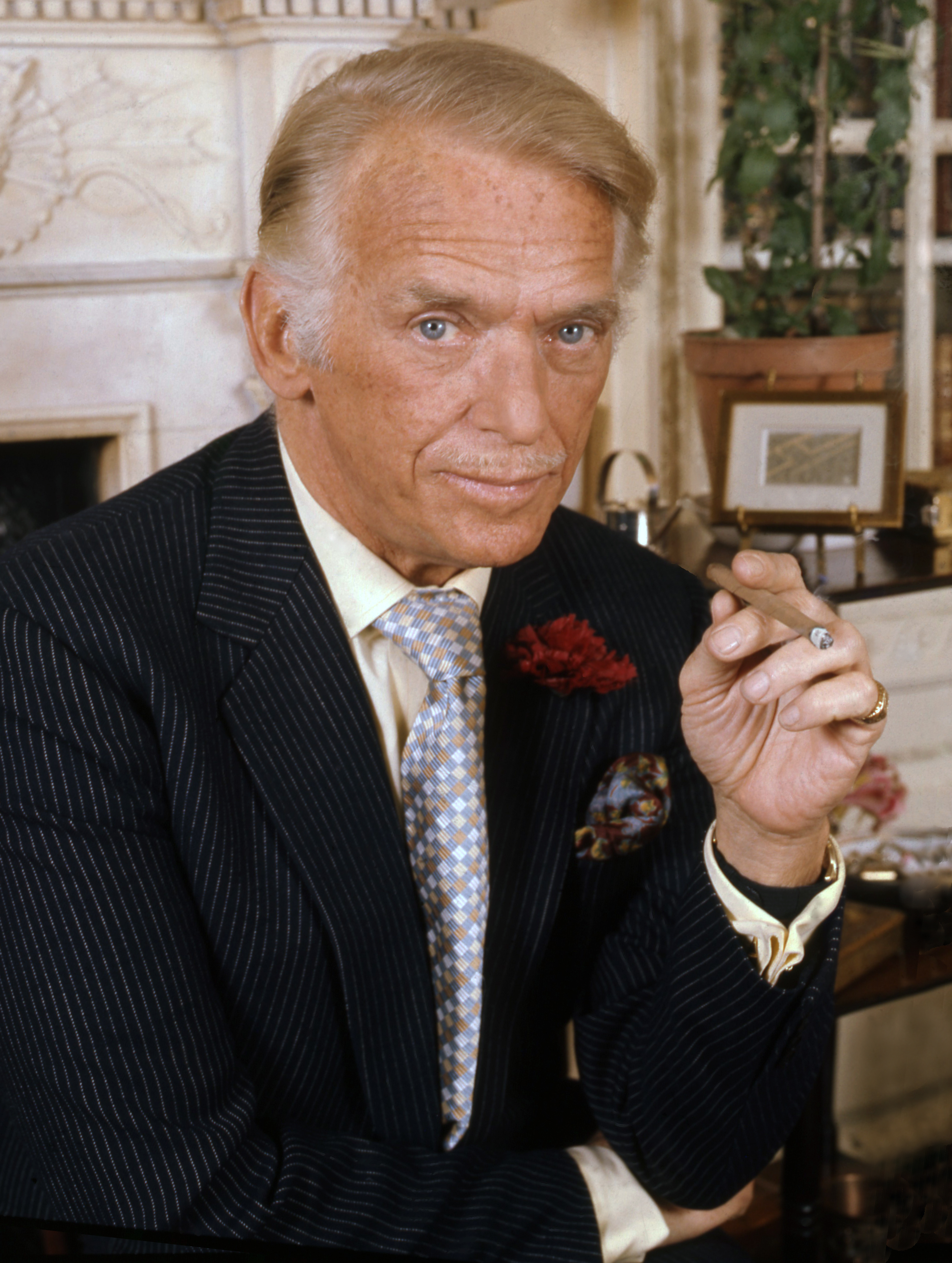 Douglas Fairbanks, Jr. at his home, The Boltons, London